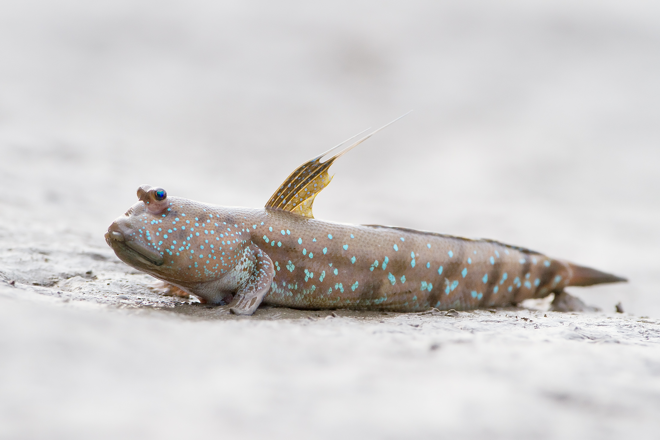 Boleophthalmus boddarti, Laem Phak Bia, Ban Laem, Phetchaburi, Thailand